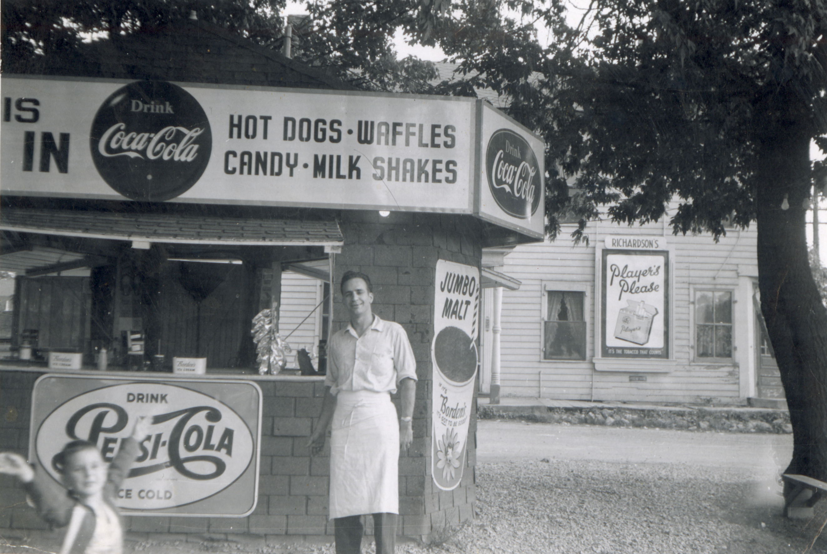 A Historic Photo of the Oasis Drive-In in 1956, located in Caledonia, ON, Canada.